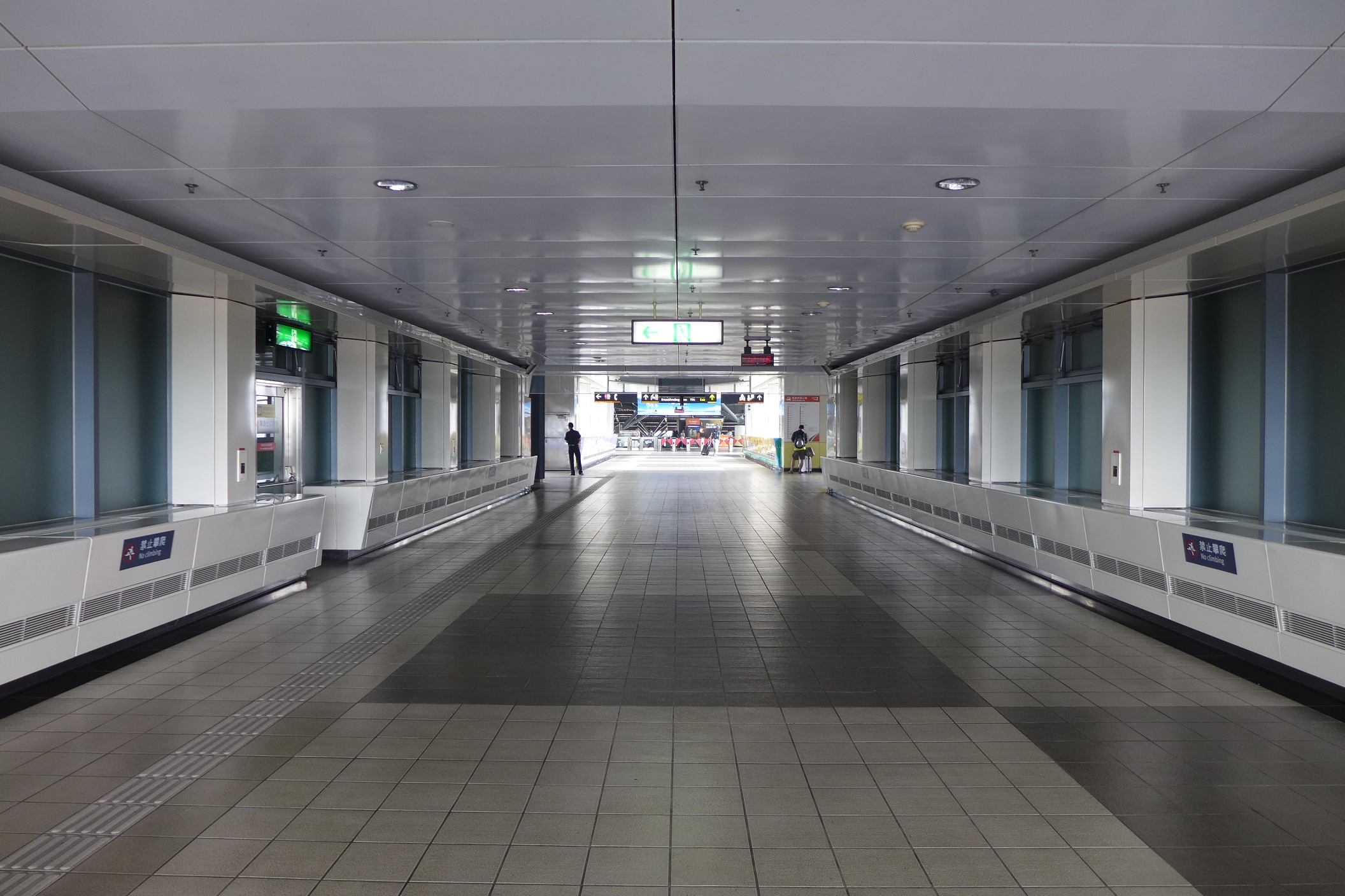 Tainan High Speed Rail Station Access